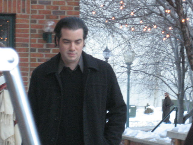 Kevin Corrigan